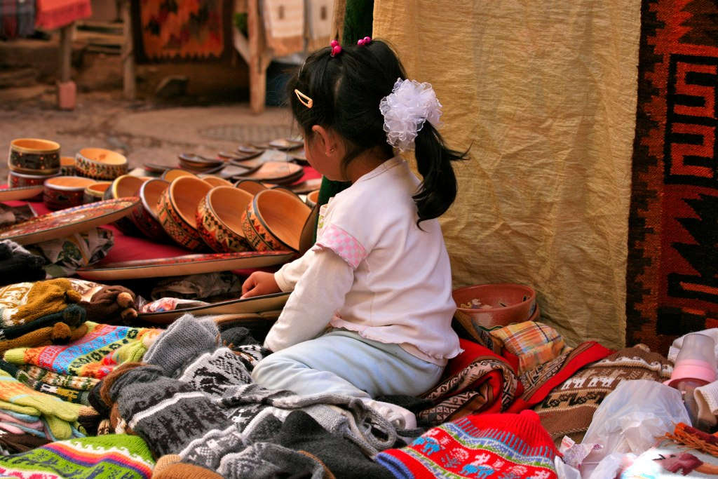 Girl Amongst the Souvenirs